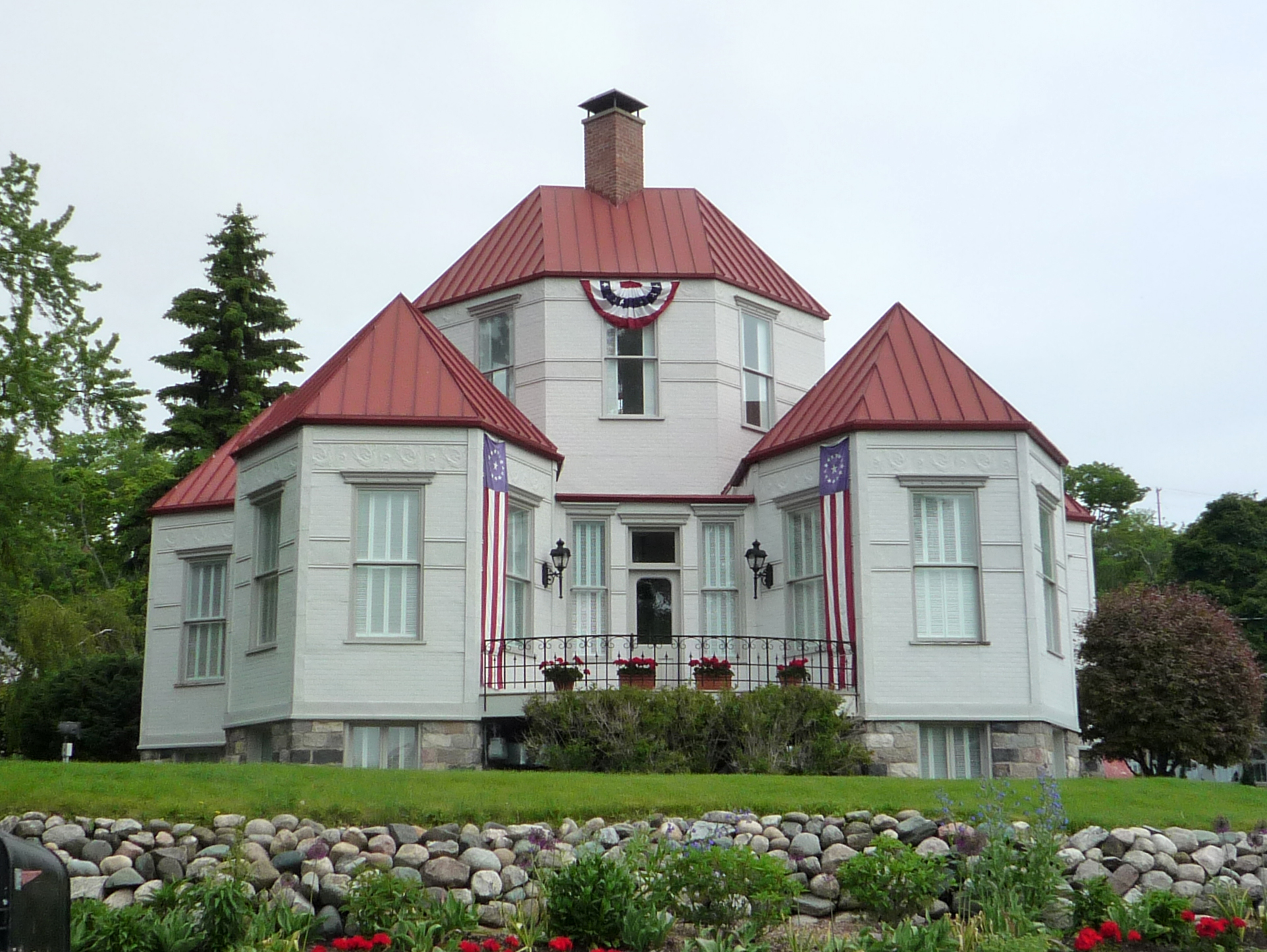 Ephraim Shay's iconic Hexagonal House, Harbor Springs, Michigan, USA.